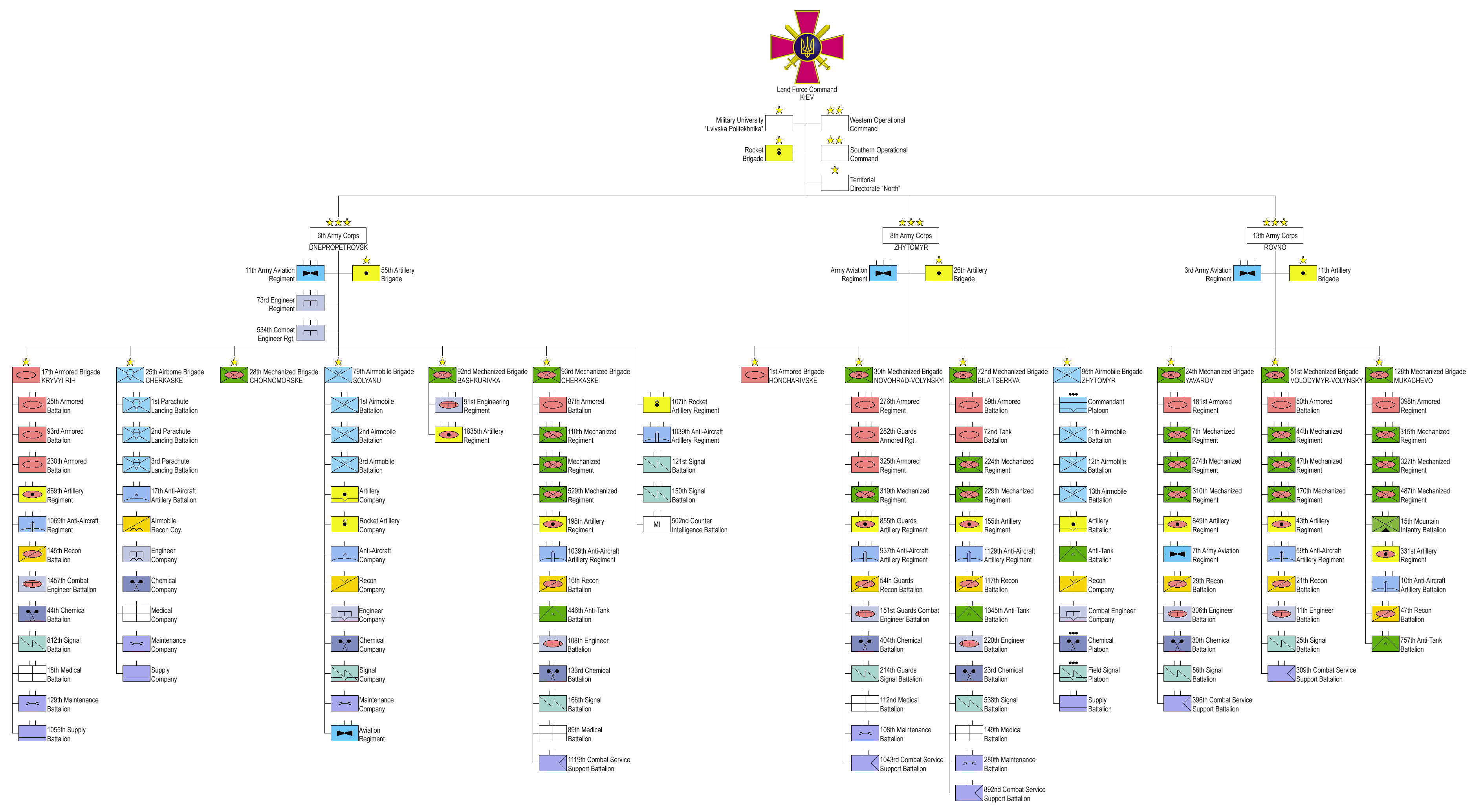 Ukrainian Ground Forces Structure